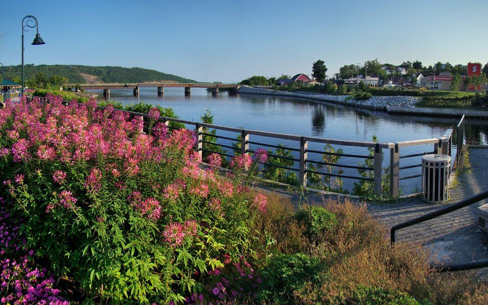 Woodstock, New Brunswick, Canada. On the banks of the Saint John River.